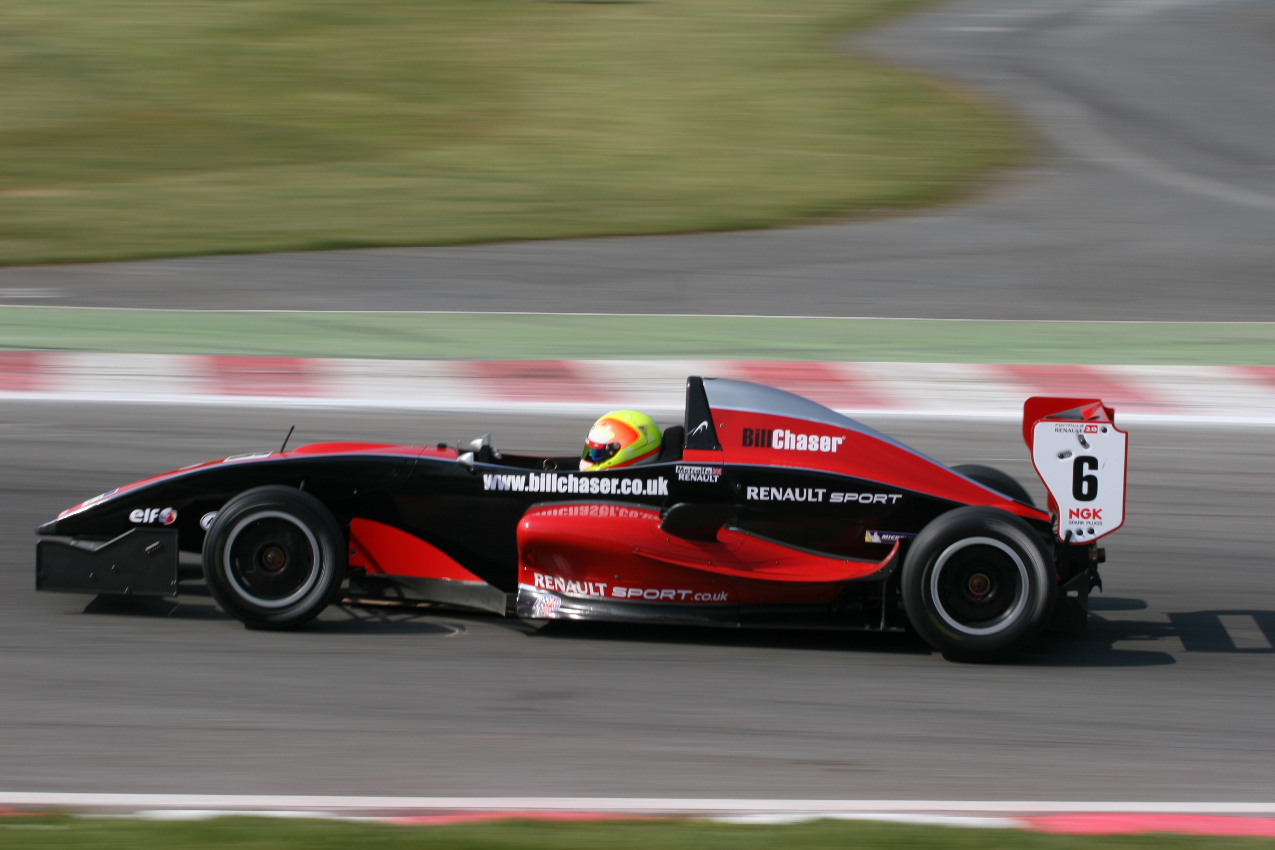 Jeremy Metcalfe (AKA Cobra) driving a Renault FR2000, used in the 2007 Formula Renault UK 2.0 Championship, during the qualifying session for the second race at the first meeting of the season at Brands Hatch. Metcalfe qualified seventh.